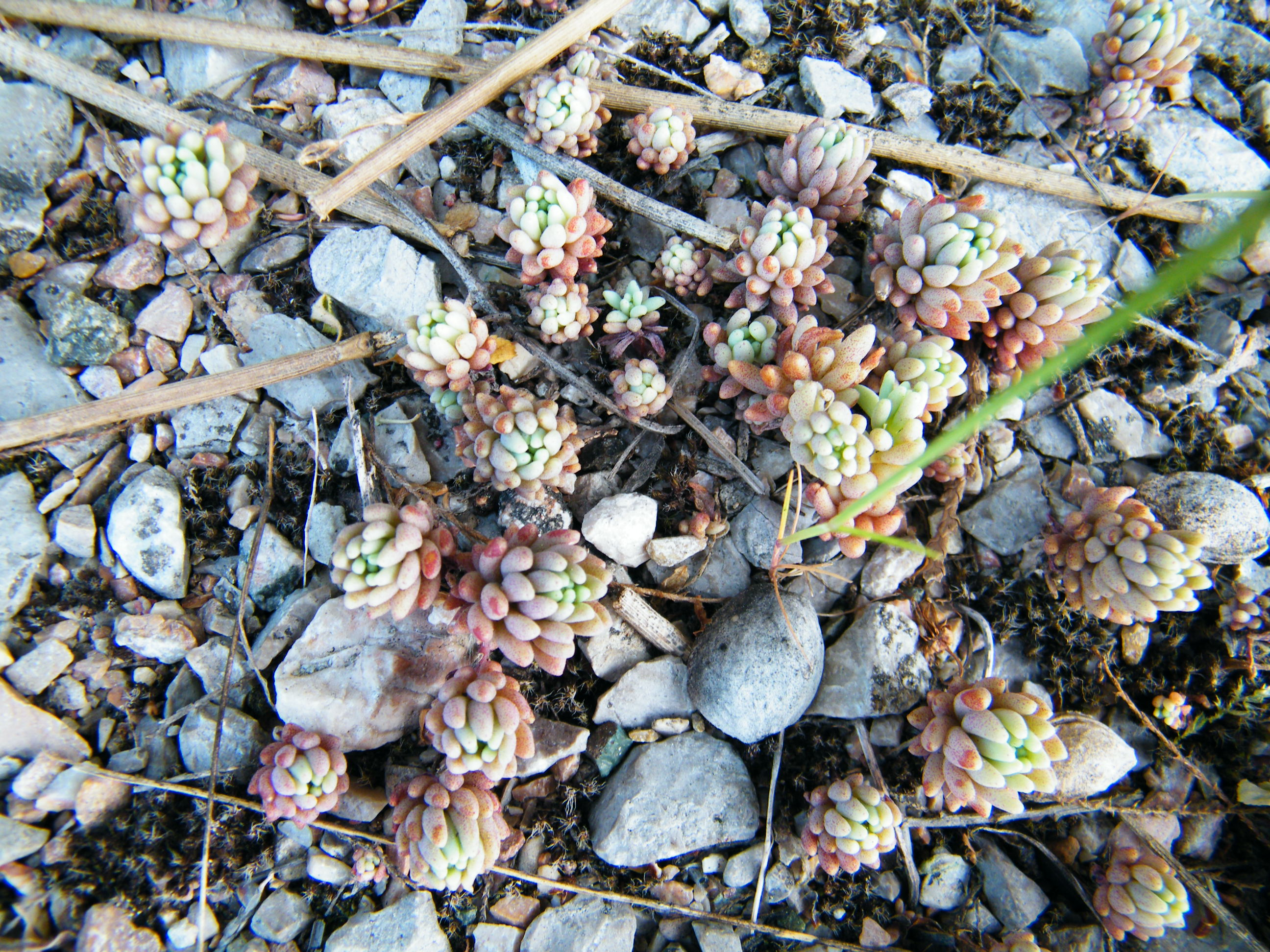 Sedum in Laspi Bay